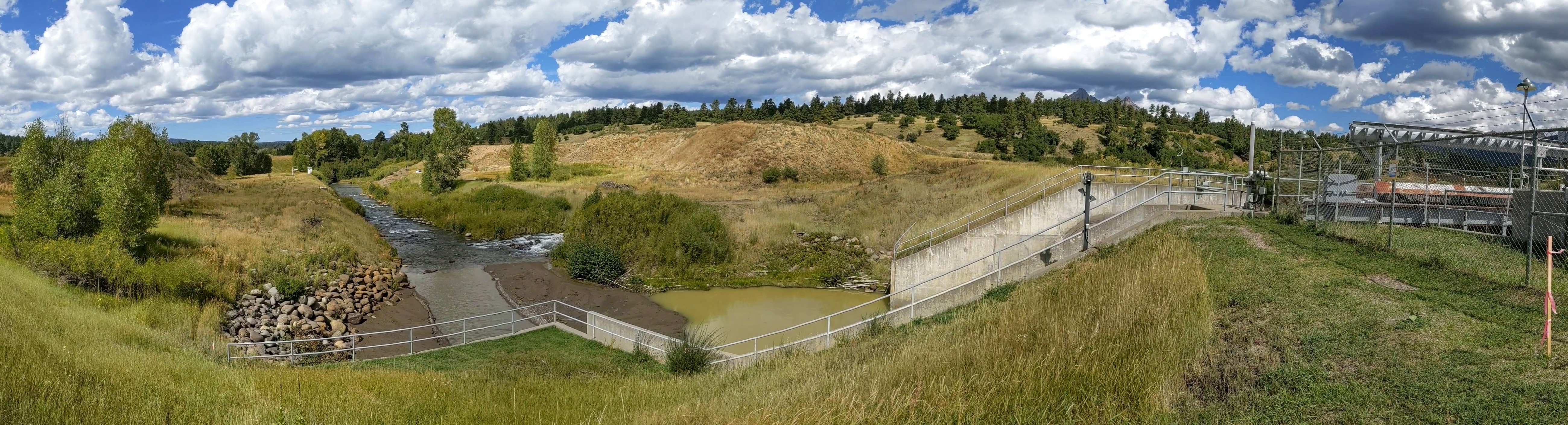 Navajo River at outflow of Oso Diversion Dam, above Chromo, Archuleta County, Colorado